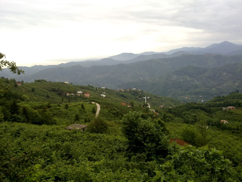 Araklı Birlik